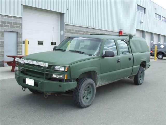 Canadian Military Police Light Utility Vehicle Wheeled (LUVW) militarized commercial off-the-shelf (MilCOTS) truck.